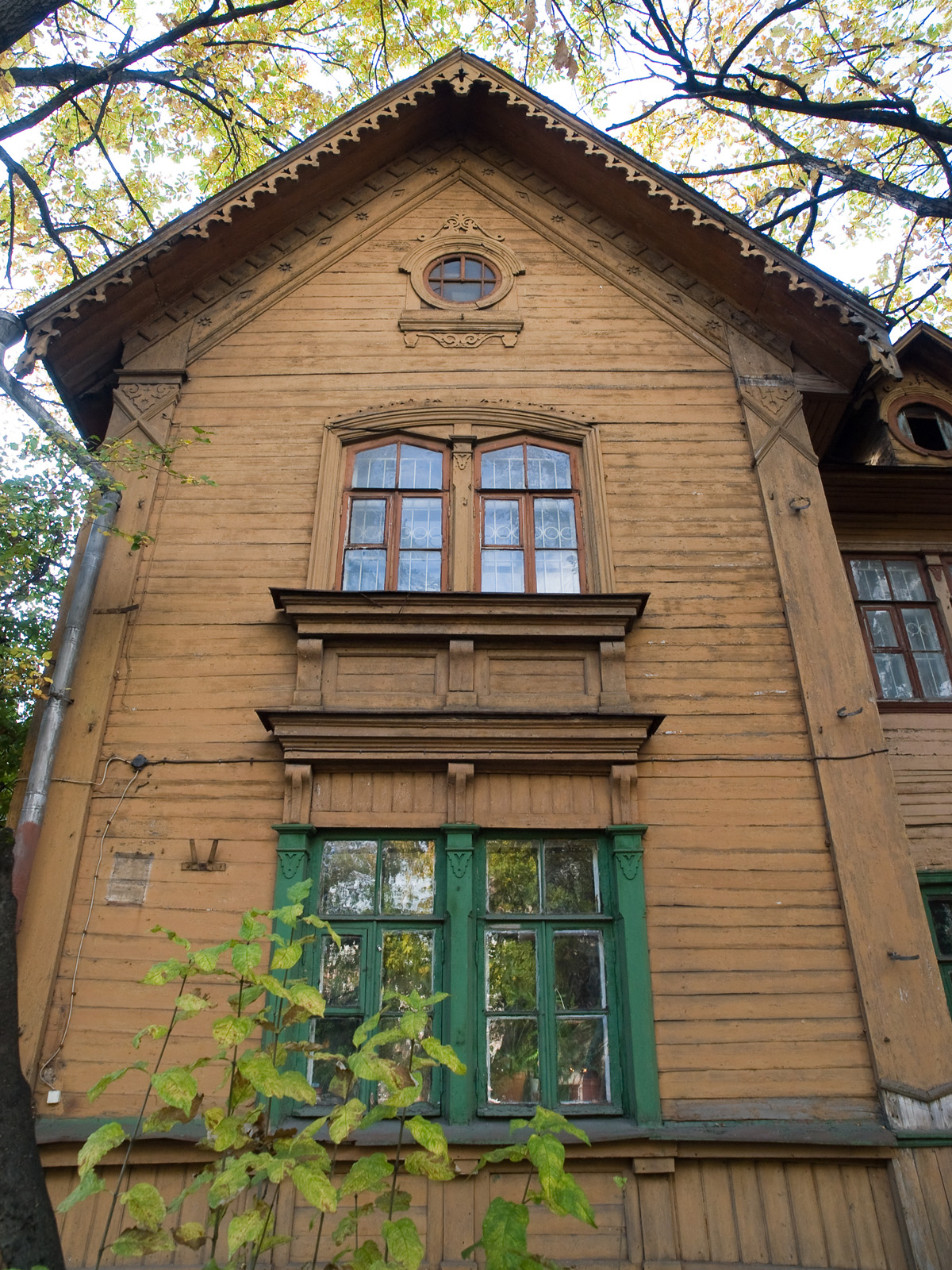 Old dachas (faculty homes) of Timiryazev Agricultural Academy, Moscow